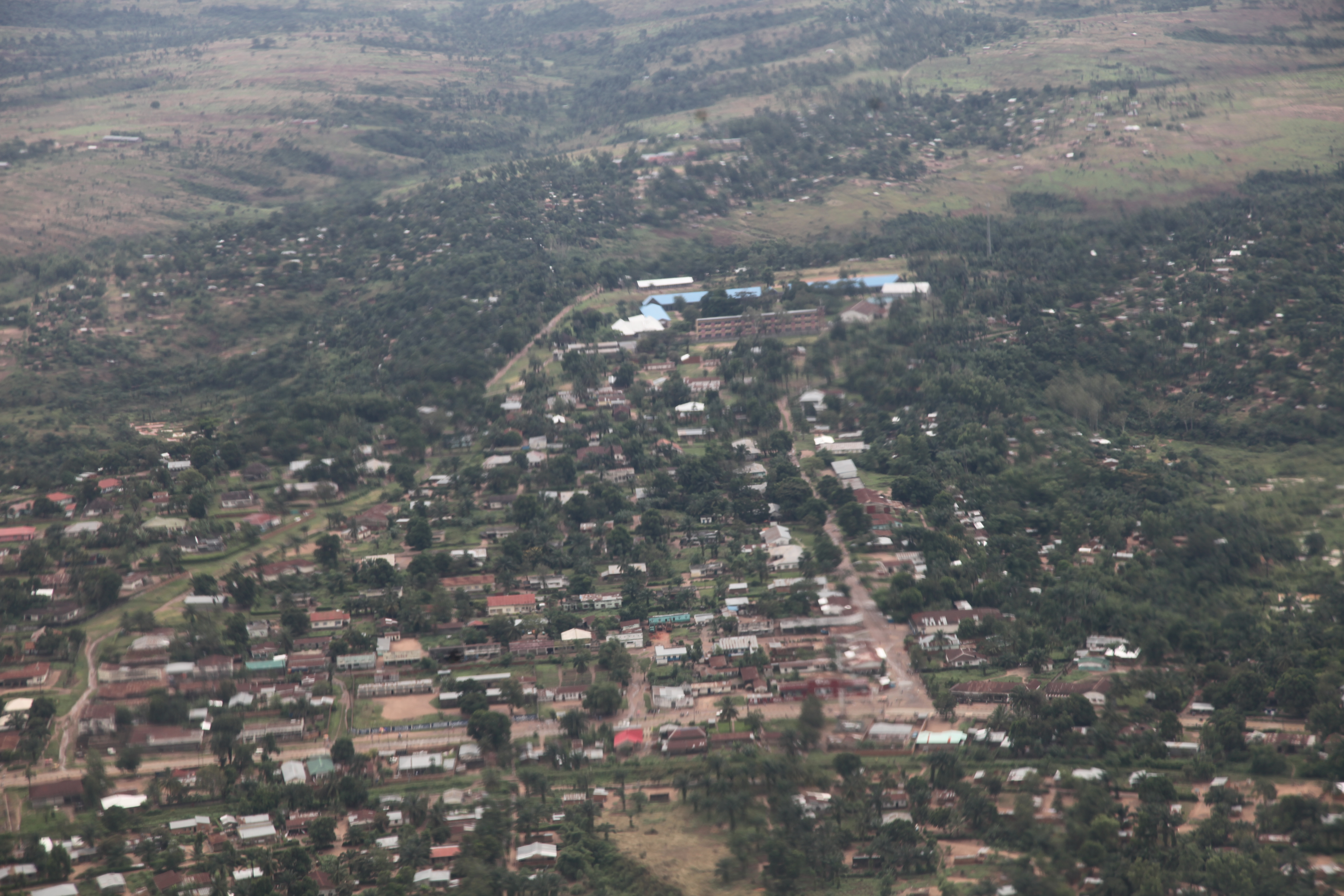 Aerial photograph of Kananga.